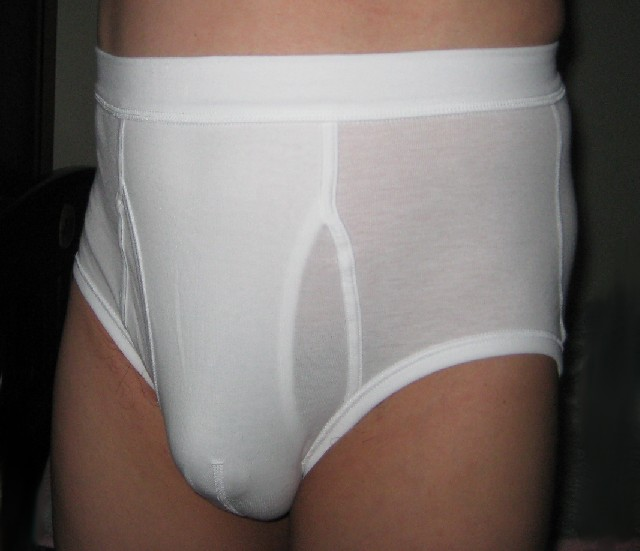 white brief